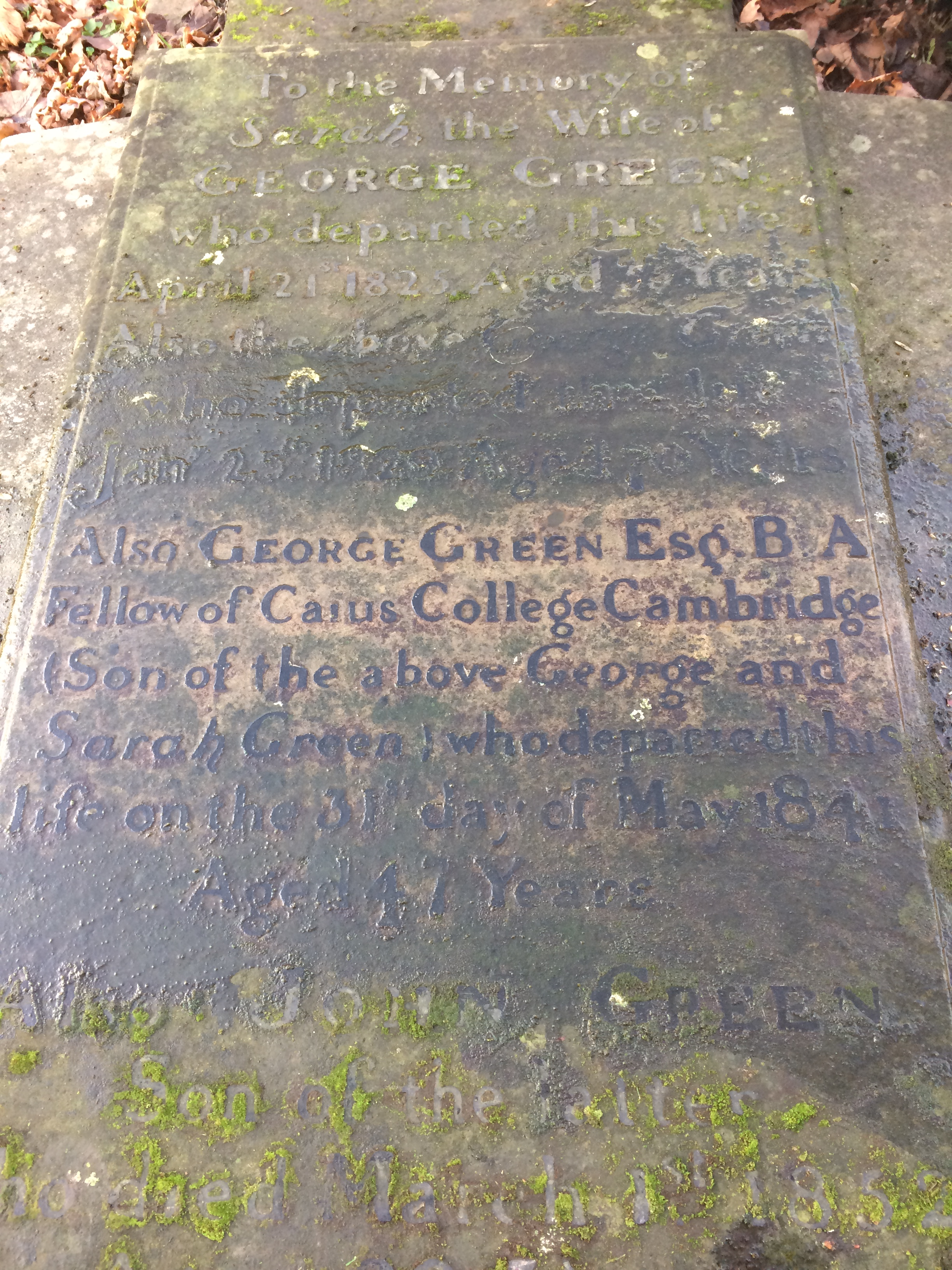 The grave stone of George Green, Professor of Mathematics and Green's Theorum, Caius College Cambridge in St Stephen's cemetery, a little closer to the east wall of the cemetery than his parent's grave stone, under the giant cherry tree. It is the raised grave stone, which was restored 1938.